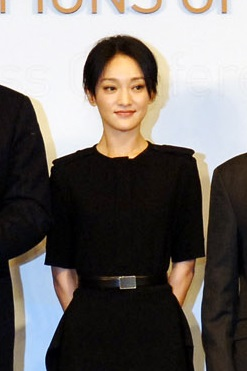 Zhou Xun in Seoul in 2010.